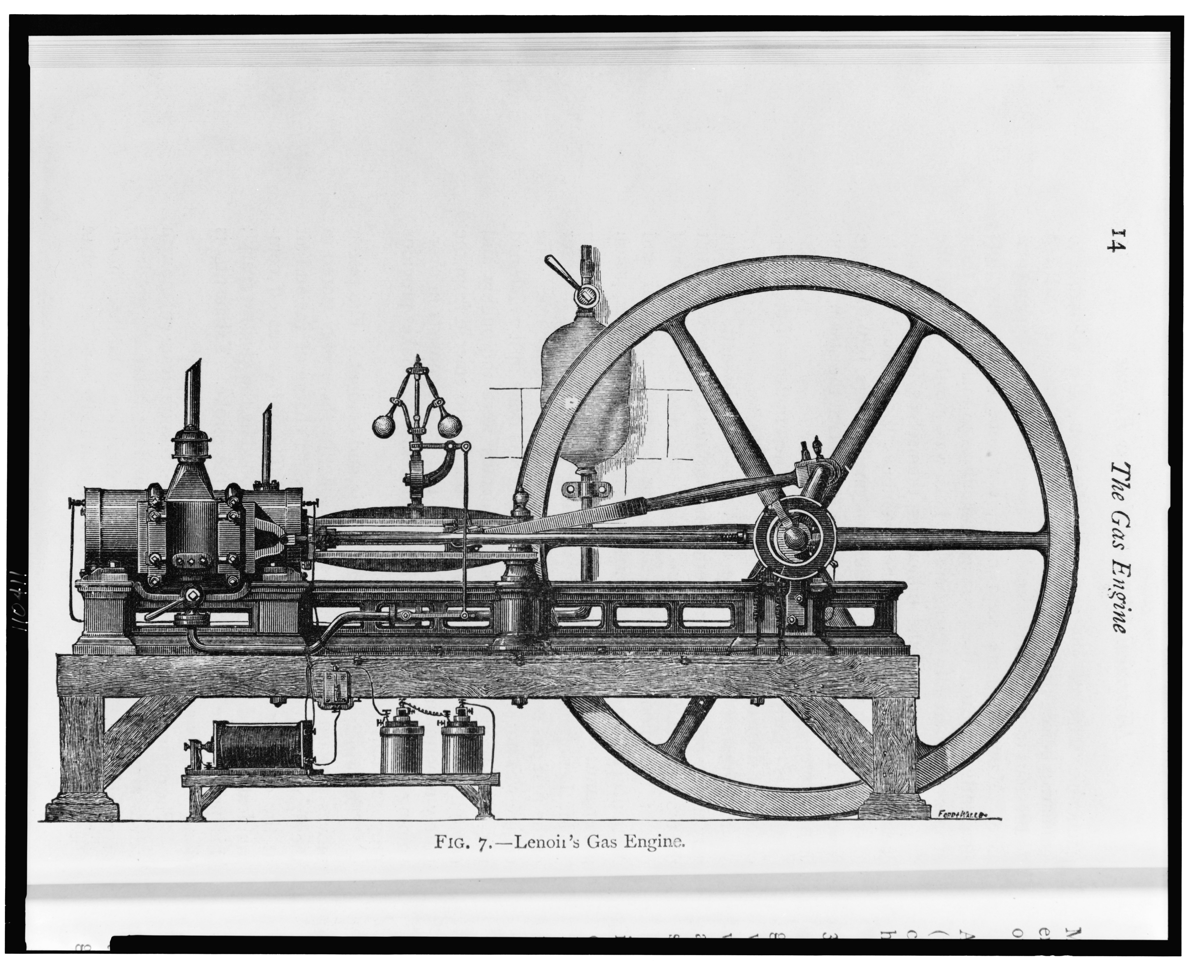 Title: A three-horsepower internal combustion engine that ran on coal gas Abstract/medium: 1 print.